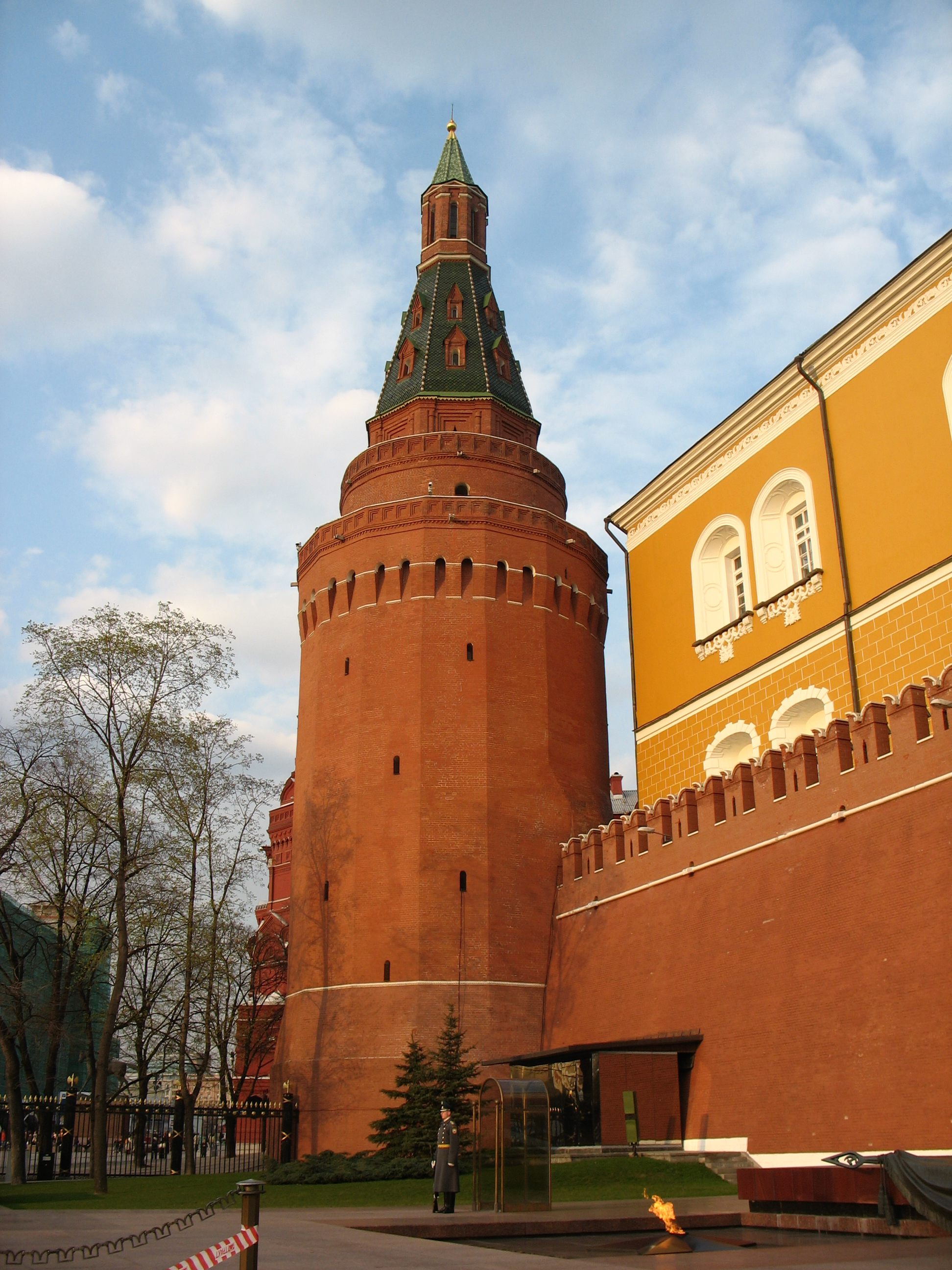 Uglovaya Arsenalnaya tower of Moscow Kremlin